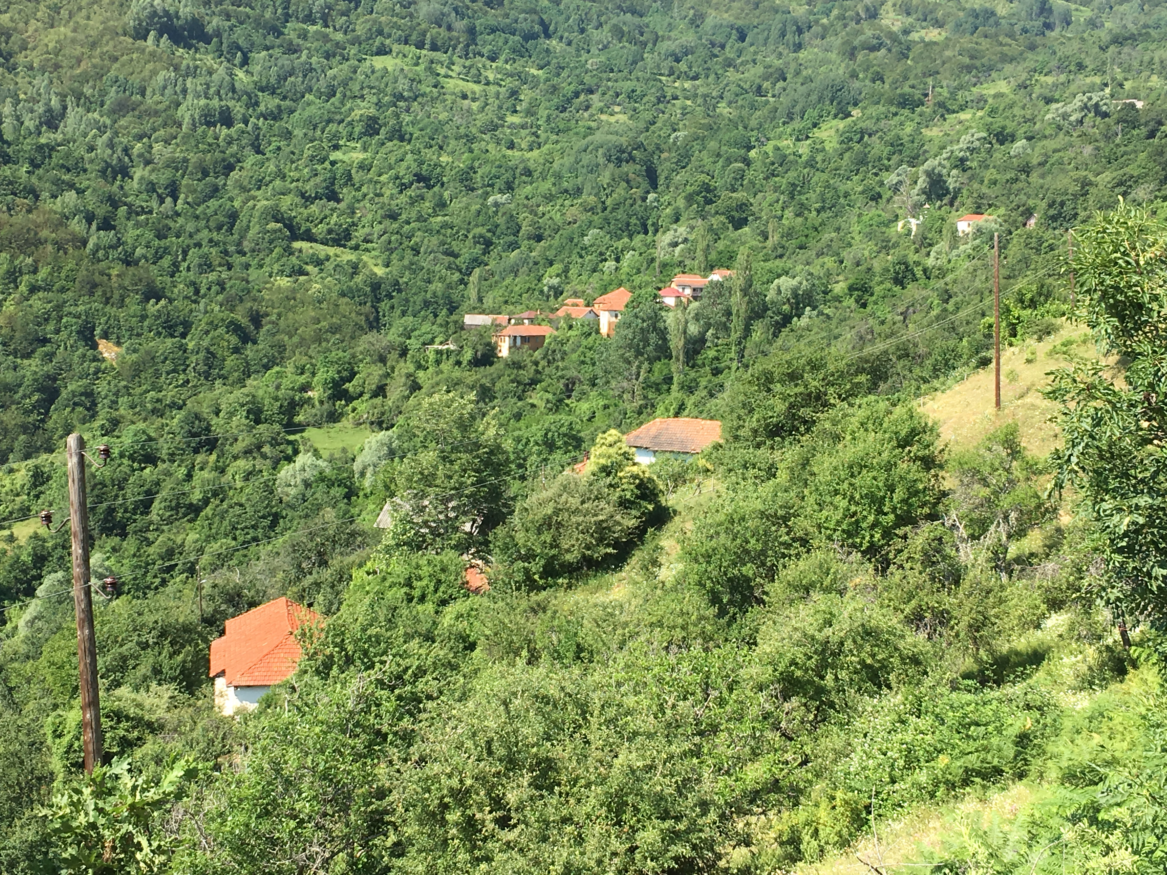 View of the village of Gorno Krušje